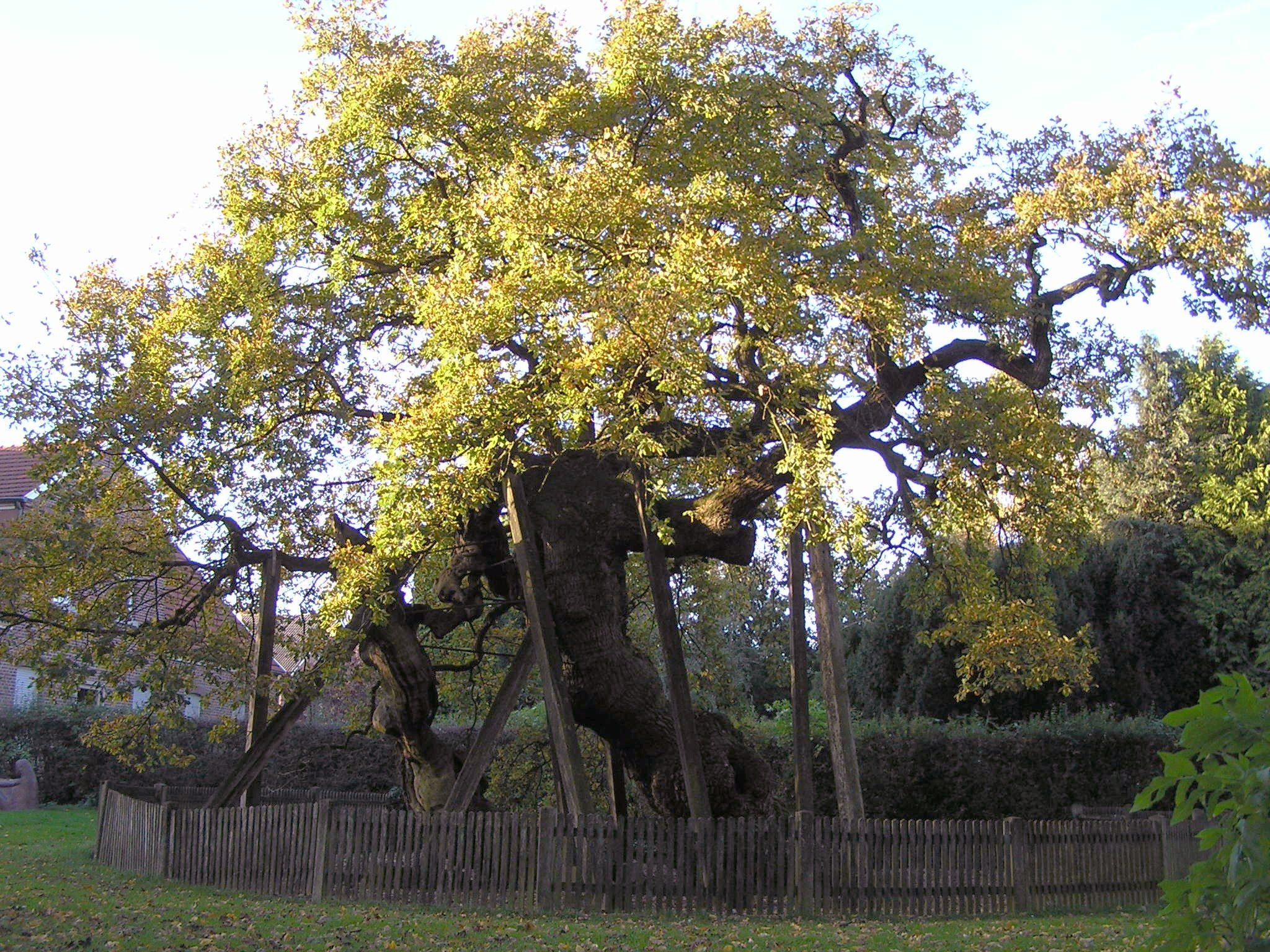 more than 1000 year old pedunculate oak called "Femeiche" in Raesfeld-Erle, Germany